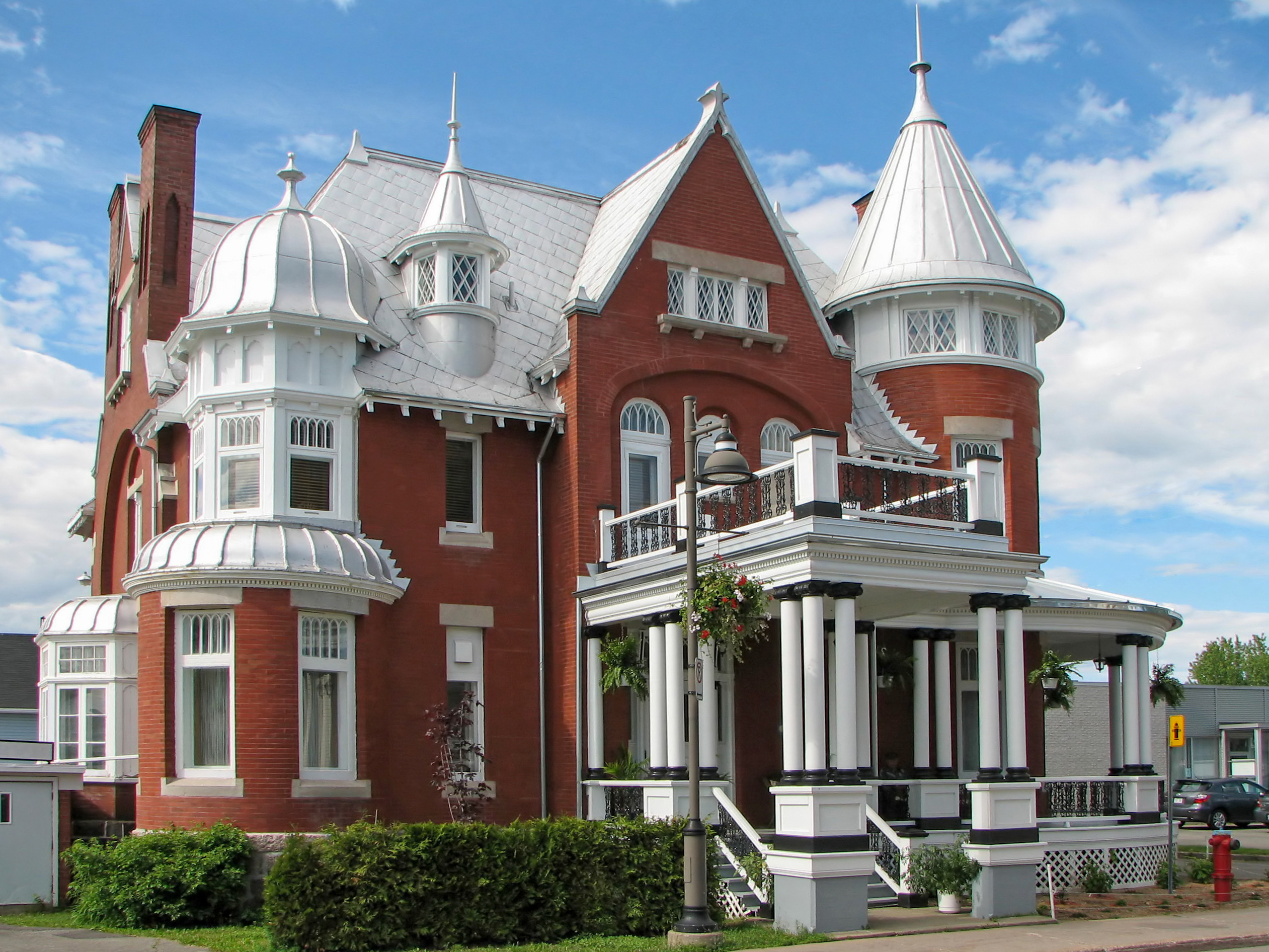 Amable Bélanger House (1906), 5, Saint-Jean Baptiste Street East, Montmagny, province of Quebec, Canada